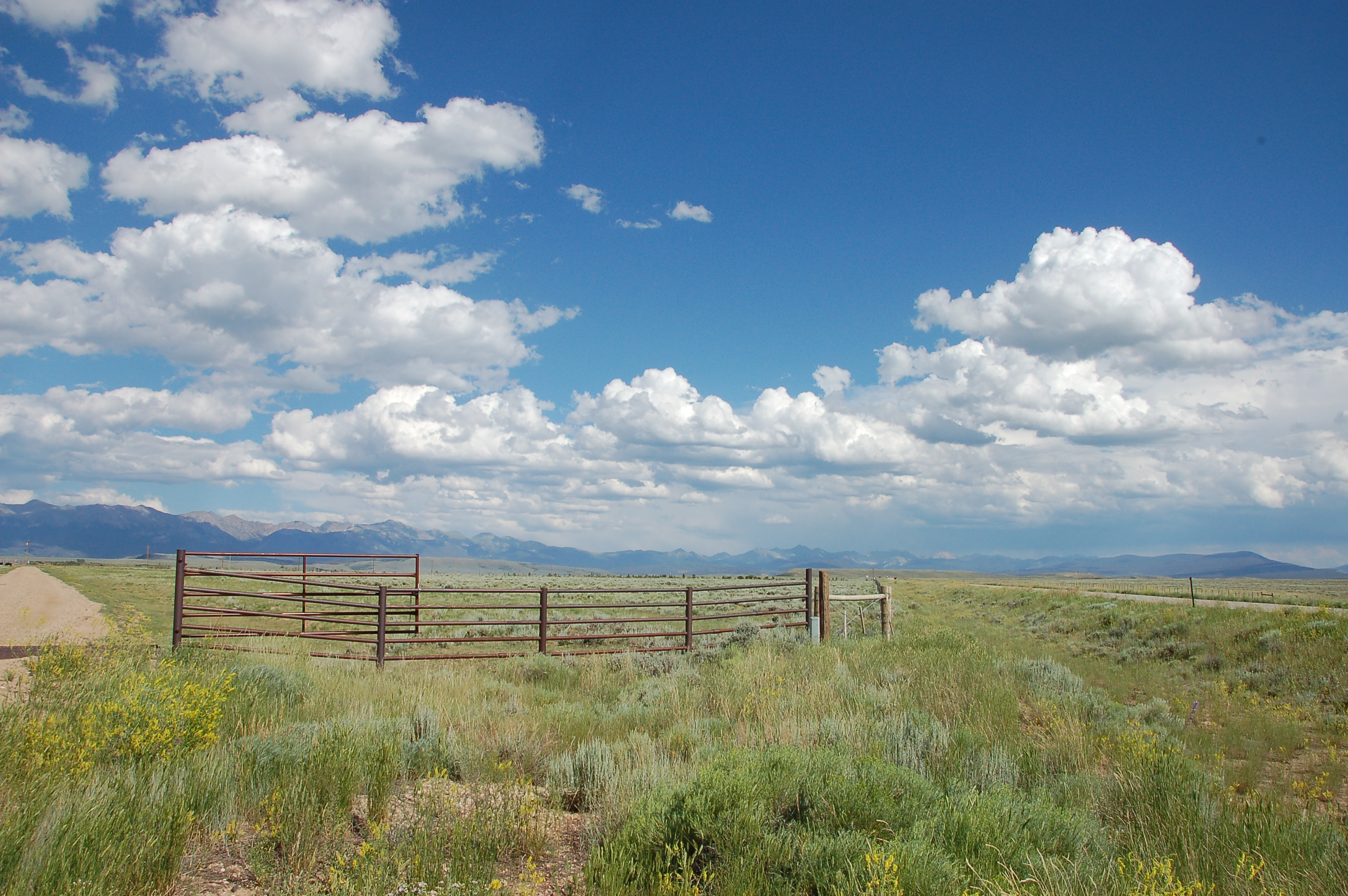 Thunder Basin National Grassland close to Douglas, Wyoming